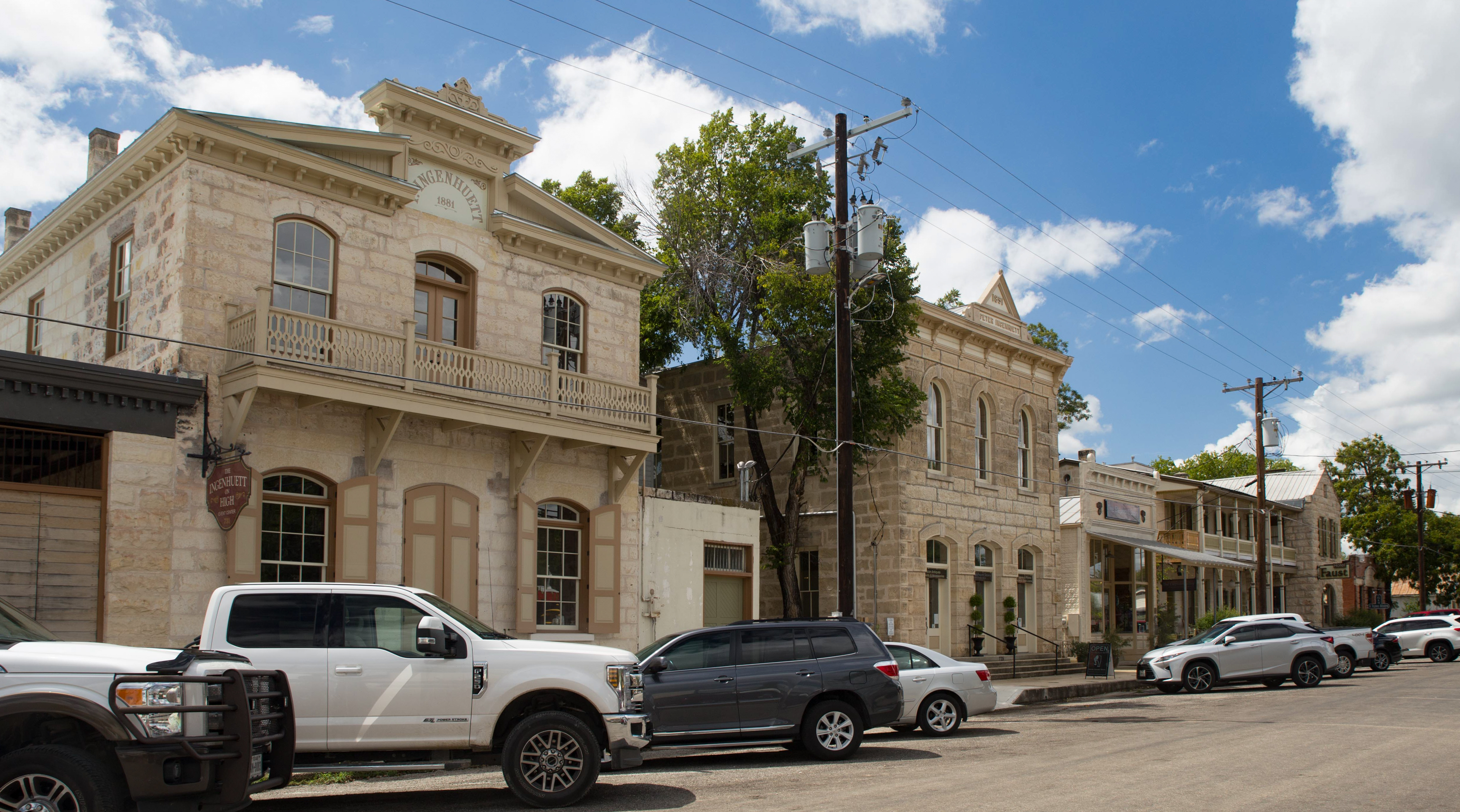 Downtown Comfort, Texas